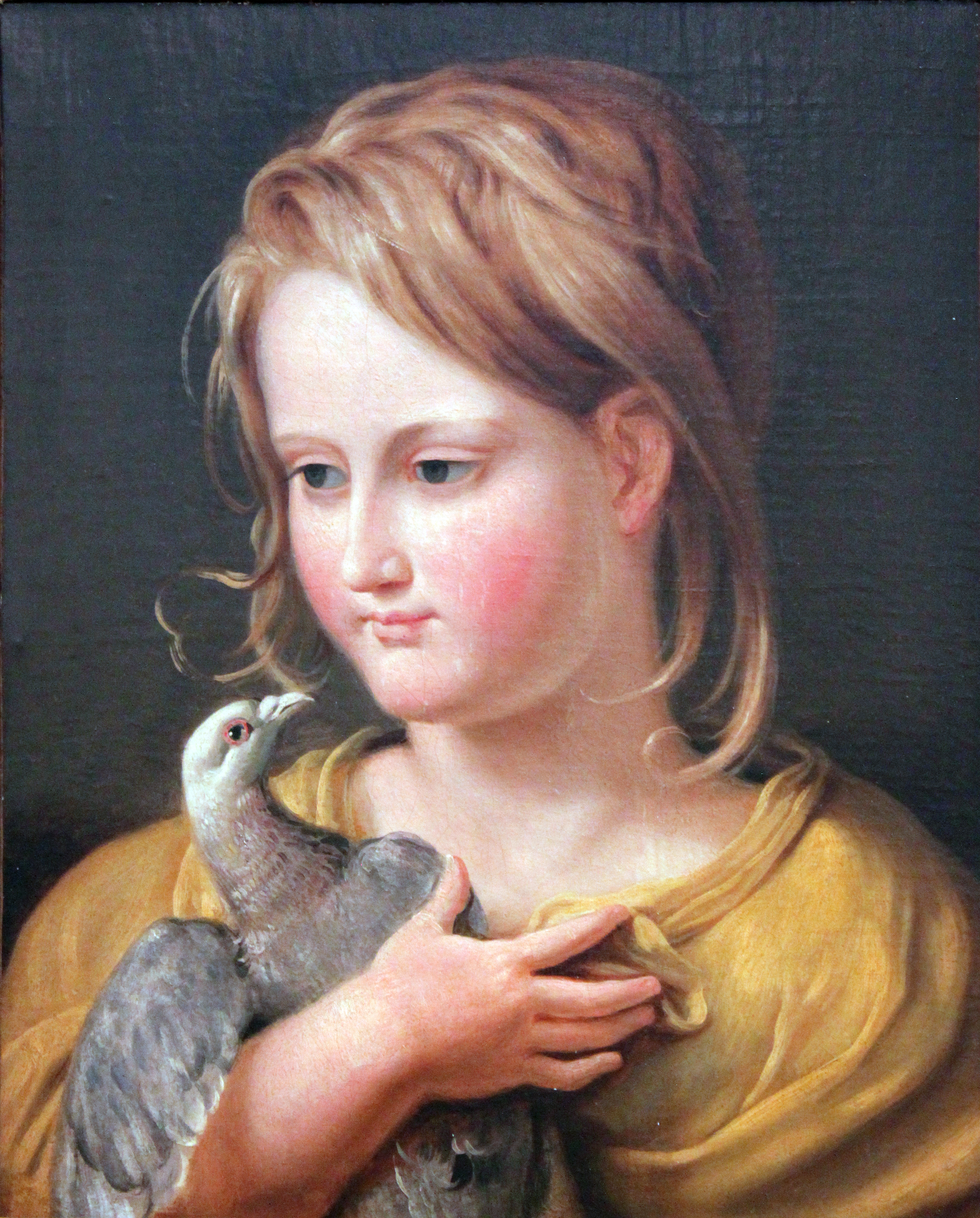 The Daughter Ernestine